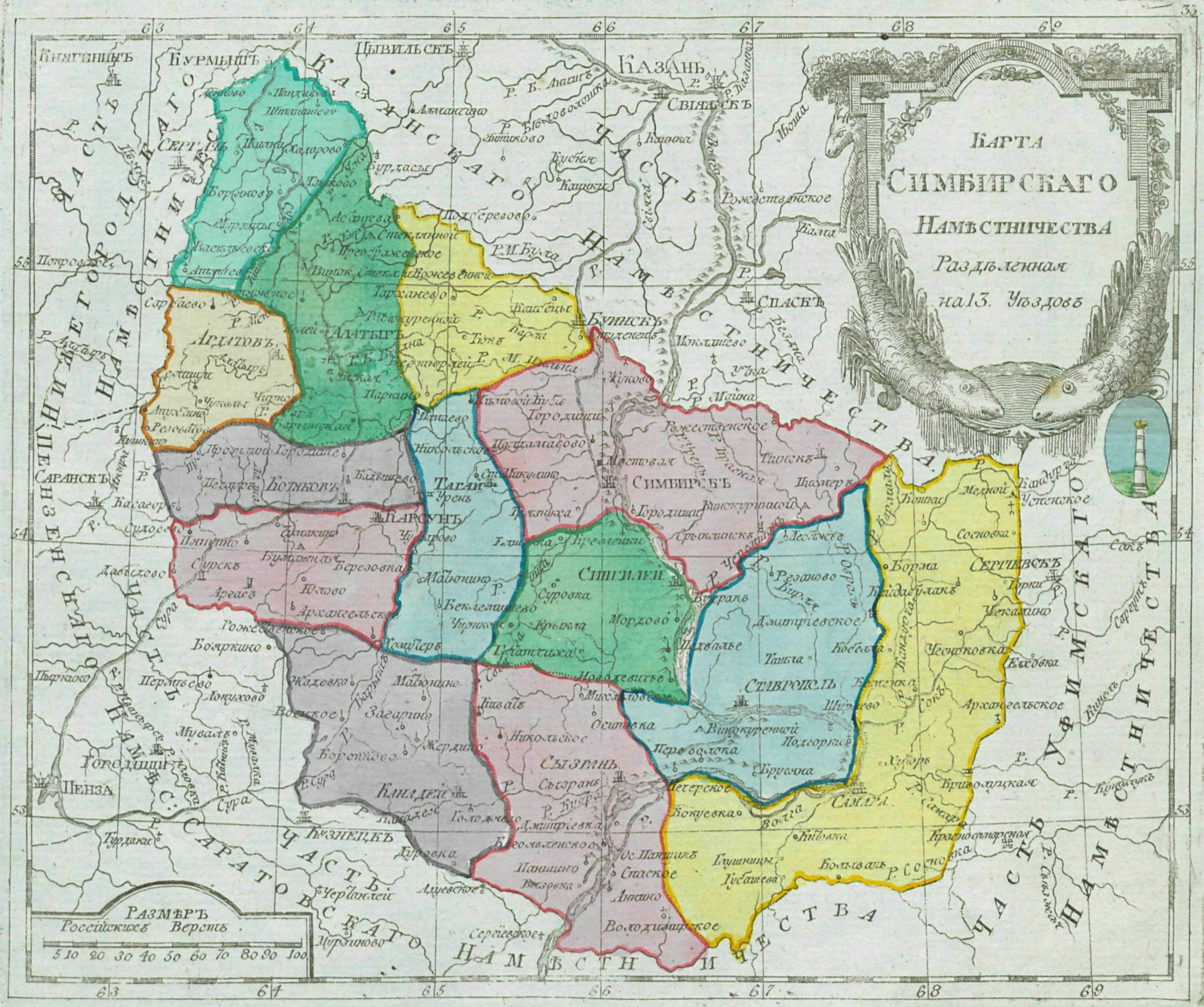 Small atlas of the Russian Empire (1792). Map of Simbirsk Namestnichestvo (map 32).